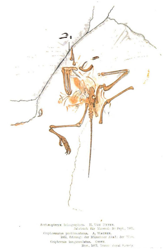 Drawing of the London specimen of Archaeopteryx by Henry Woodward (1862).